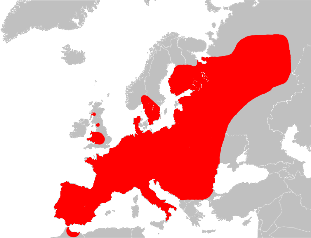 Distribution map of Mustela putorius.